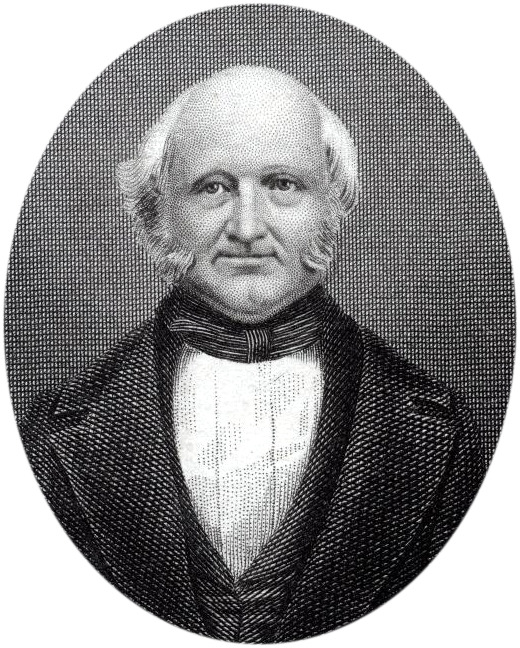 Portrait of Martin van Buren (1782-1862), president of the United States of America from 1837 till 1841. His great-grandfather in New York came from Holland.